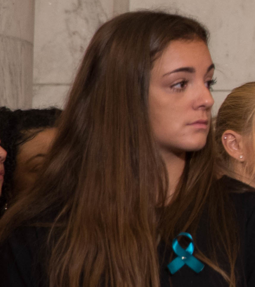 USGA_survivors_072418 (4 of 19)